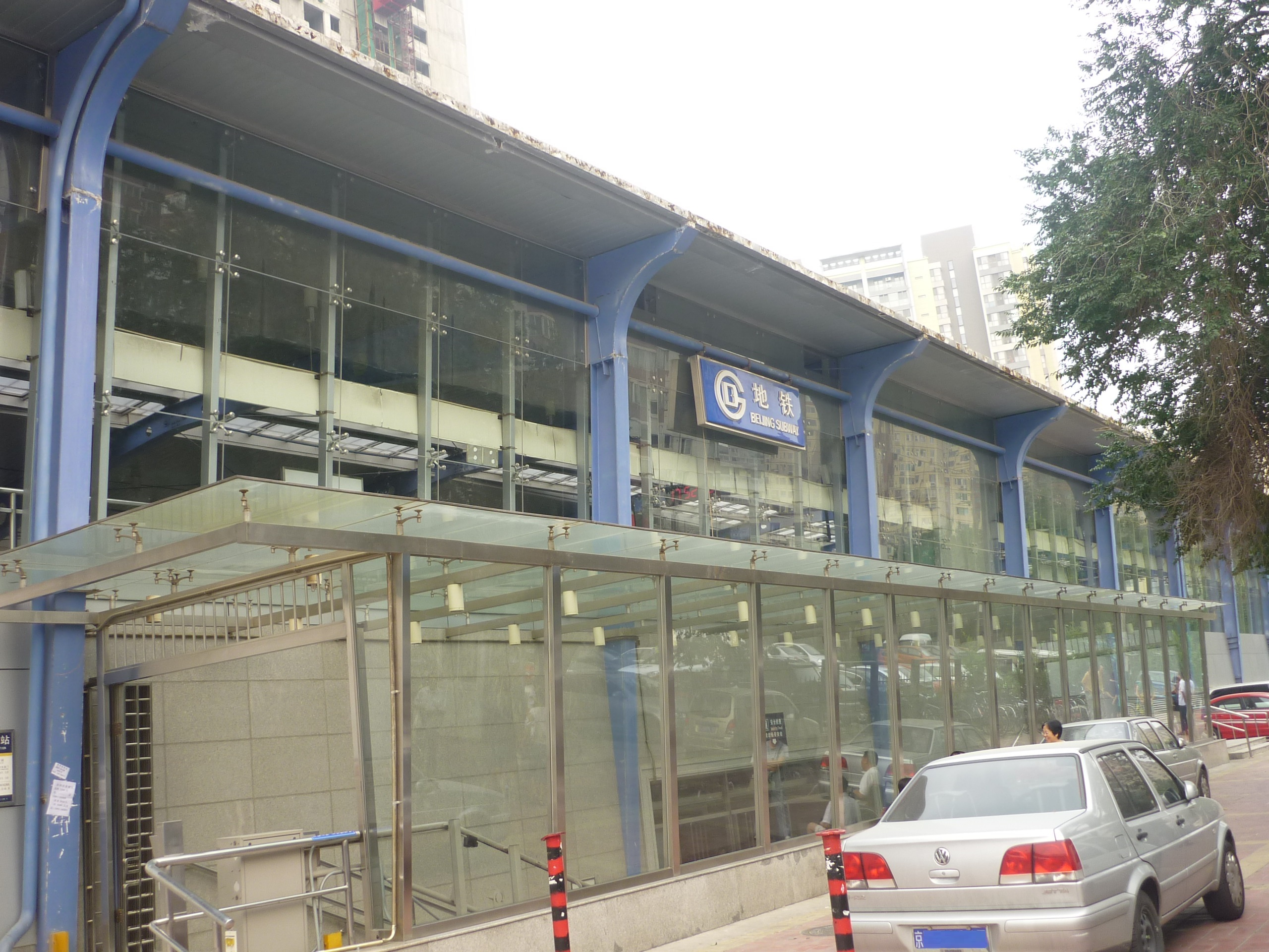 Exit A of Guangximen Station, Beijing Subway Line 13